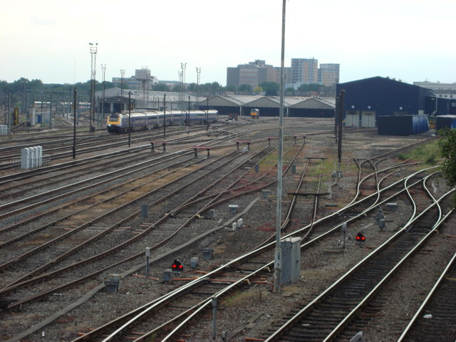 Old Oak Common Railway Maintenance Depot Taken from The Grand Union Canal towpath.